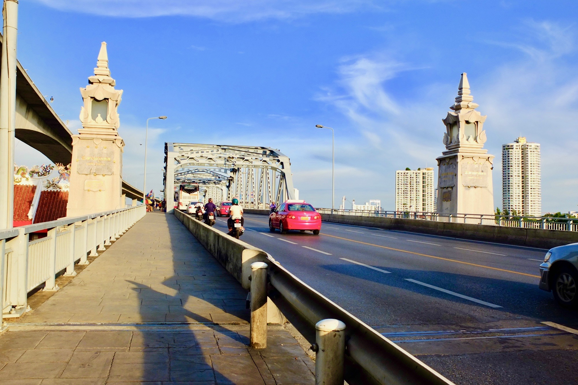 Bridge for crossing Chao Phraya River and It can be opened-Closed to the boats pass in-out. This Bridge is located at Bang Kho Laem (Phranakhorn Side) Thon Buri (Thonburi Side), Bangkok, Thailand.